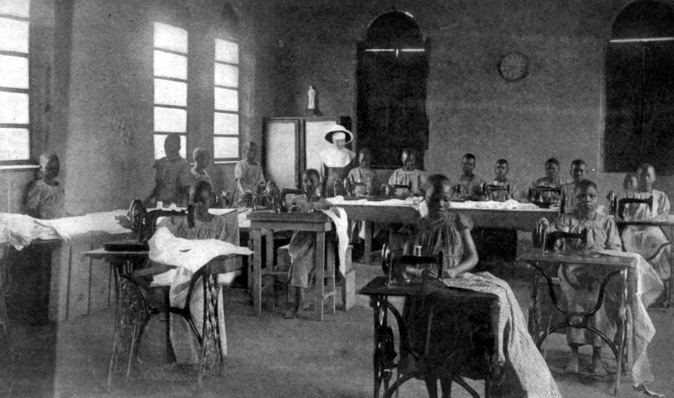 Natives Working Sewing Machines at Kisantu - p. 242